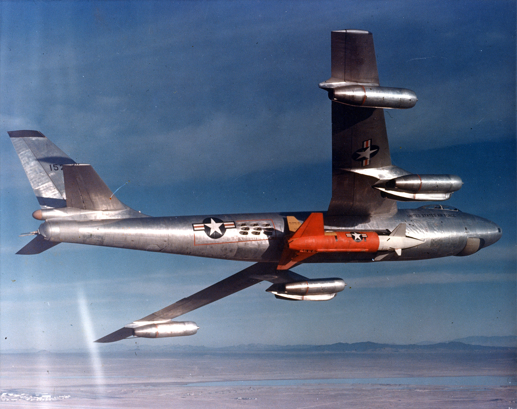 Bell XGAM-63 Rascal being carried by a DB-47 carrier aircraft (modified B-47B). After launch, the missile continued toward its predetermined target controlled by a self-contained guidance system. The Rascal's course could also be changed by its carrier aircraft. (U.S. Air Force photo)